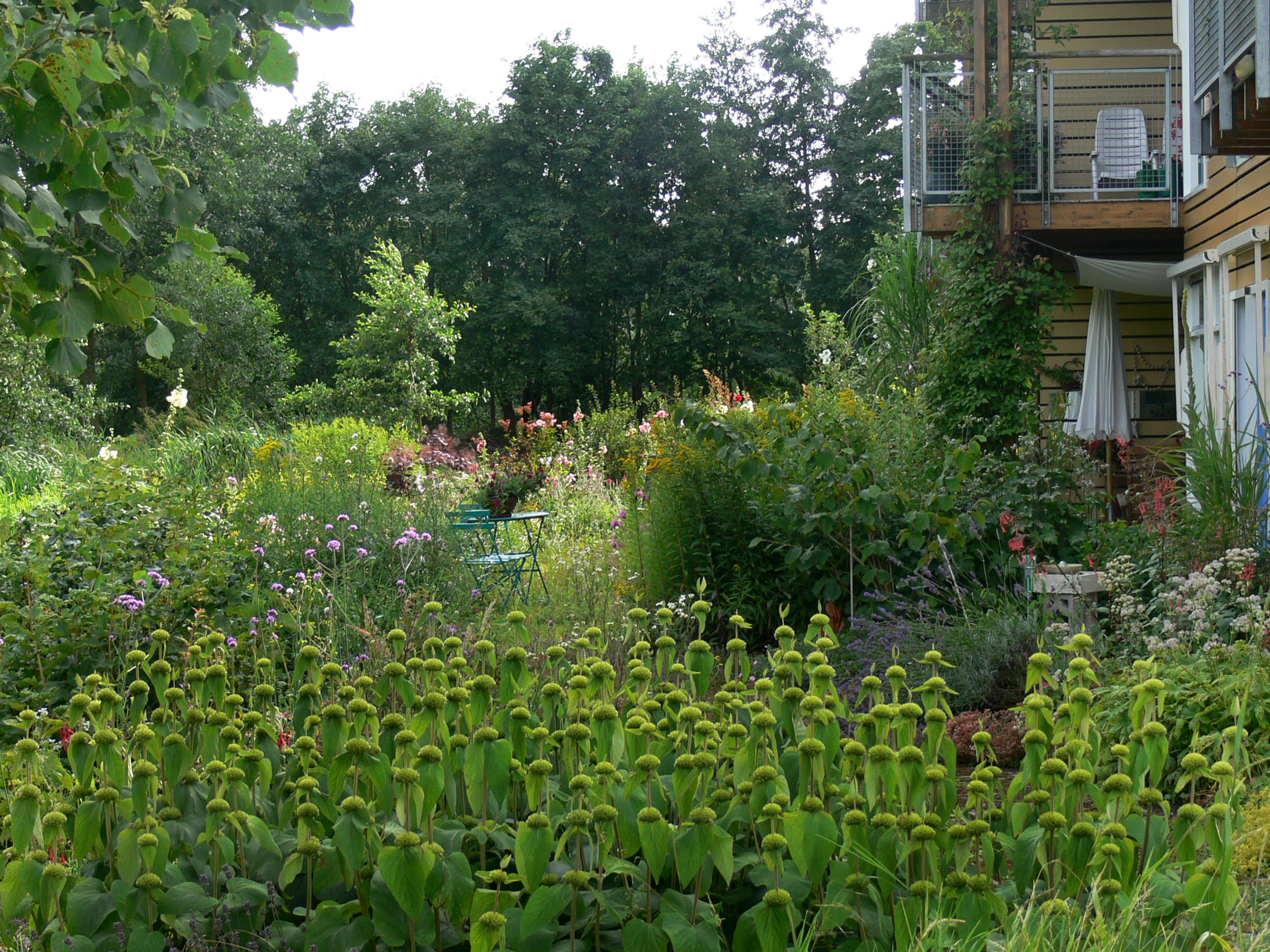 exemple of private garden in E.V.A. Lanxmeer district (a "green distric" named Lanxmeer, built at Culemborg, The Netherlands), wich is a recent (1994-2009) district (semi-public eco-building) of approximately 250 ecological houses, several offices and a urban farm. The project is based on "Sustainable Implant" with a spatial combinaison of natural systems, technical approach of integrated waste (wastewater) / energy system and écological and social purposes, for an urban neighborhood. The district is in an ecologically sensitive area (former drinking waterextraction and retention area). The conception of this district is based on permaculture, and organic design, a small biogas installation (able to treate black water and organic waste and garden & park waste), a combined Heat Power. Some houses are in closed greenhouse. A semi-public building (the ‘EVA Centre) should yet be made, based on the Living Machine concept.